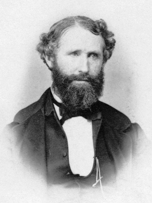 Head and shoulders portrait